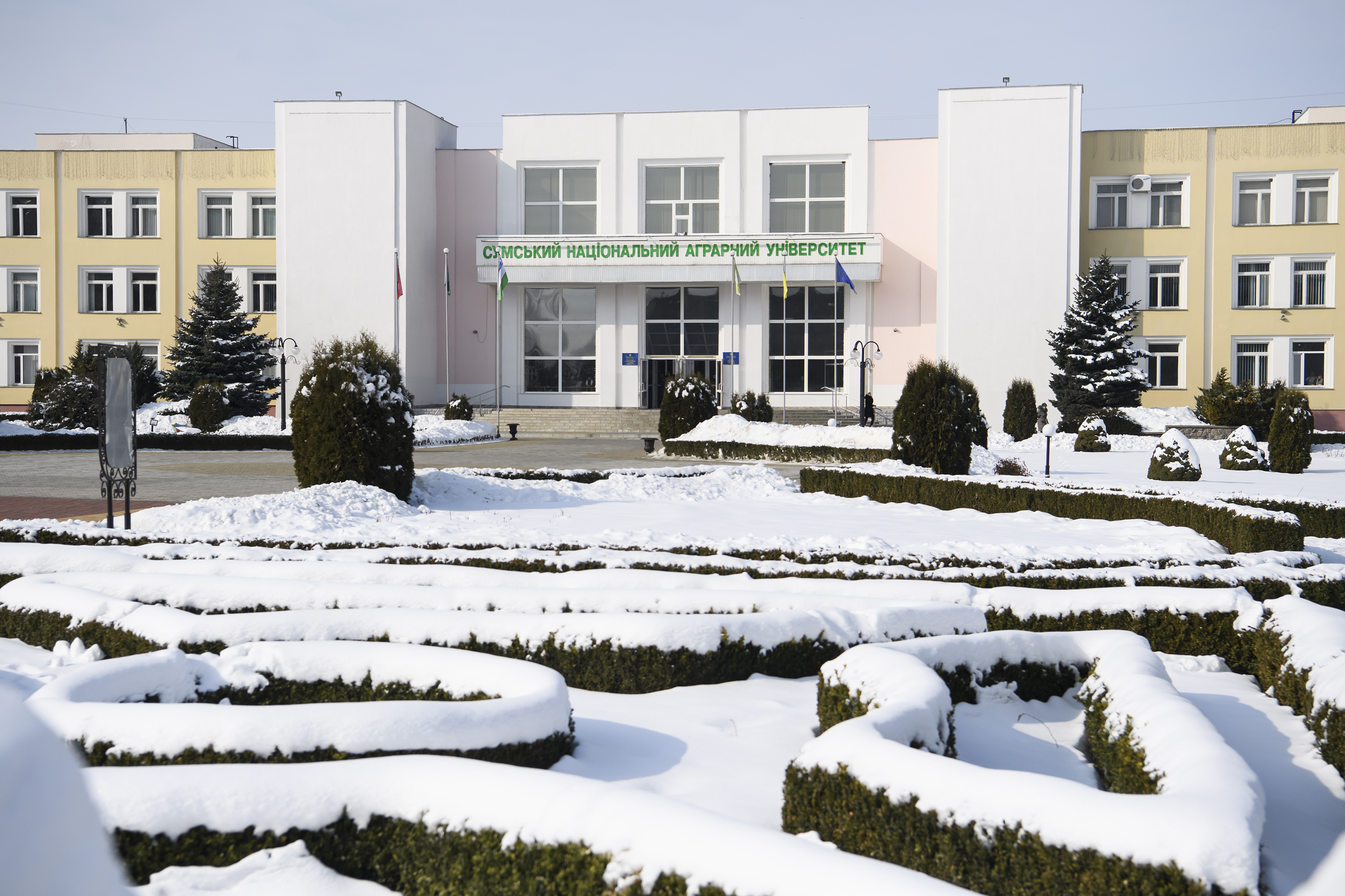 Прем’єр-міністр відвідав Сумський національний аграрний університет, де поспілкувався зі студентами та ознайомився з роботою Центру точного землеробства